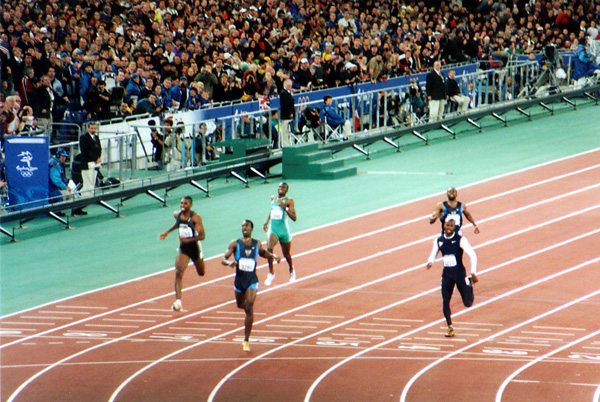 The great Michael Johnson claims victory in the men's 400m final.